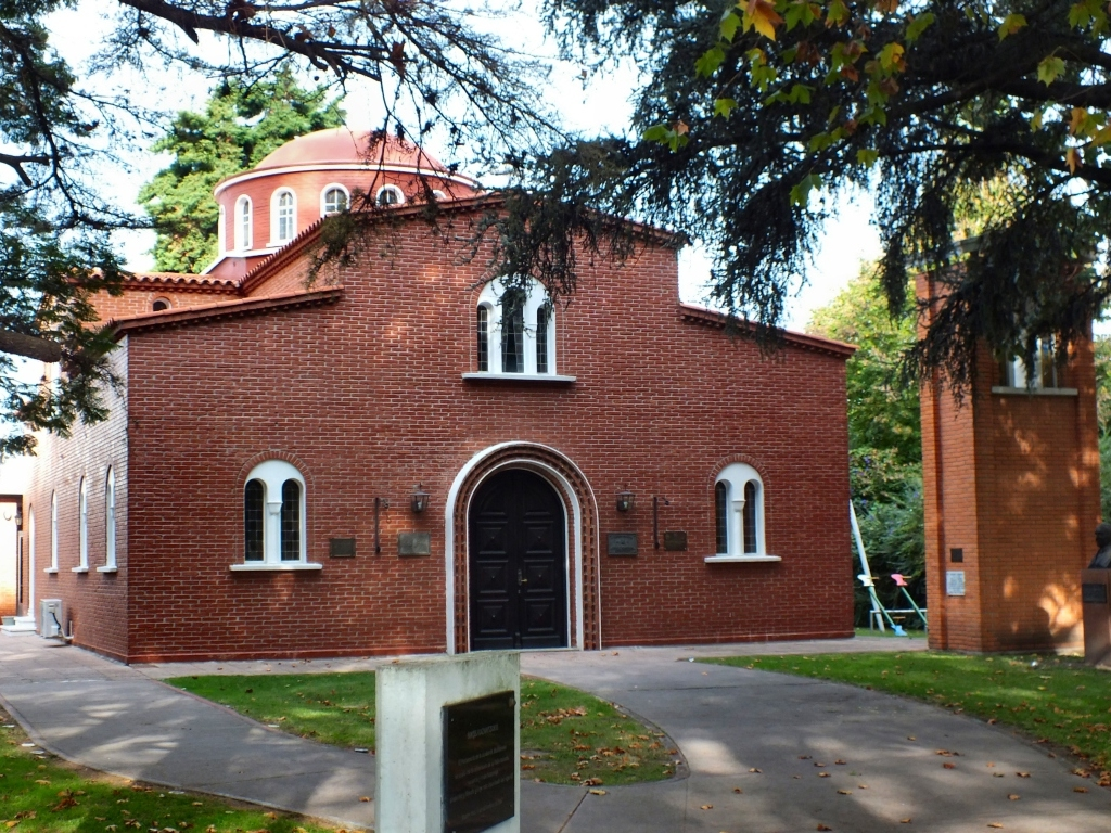 Greek Orthodox Church Saint Nicolas, Prado, Montevideo, Uruguay.